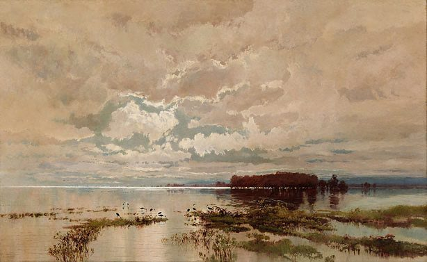 The flood in the Darling, 1890, painting, oil on canvas, 122.5 x 199.3 cm, by William Charles Piguenit